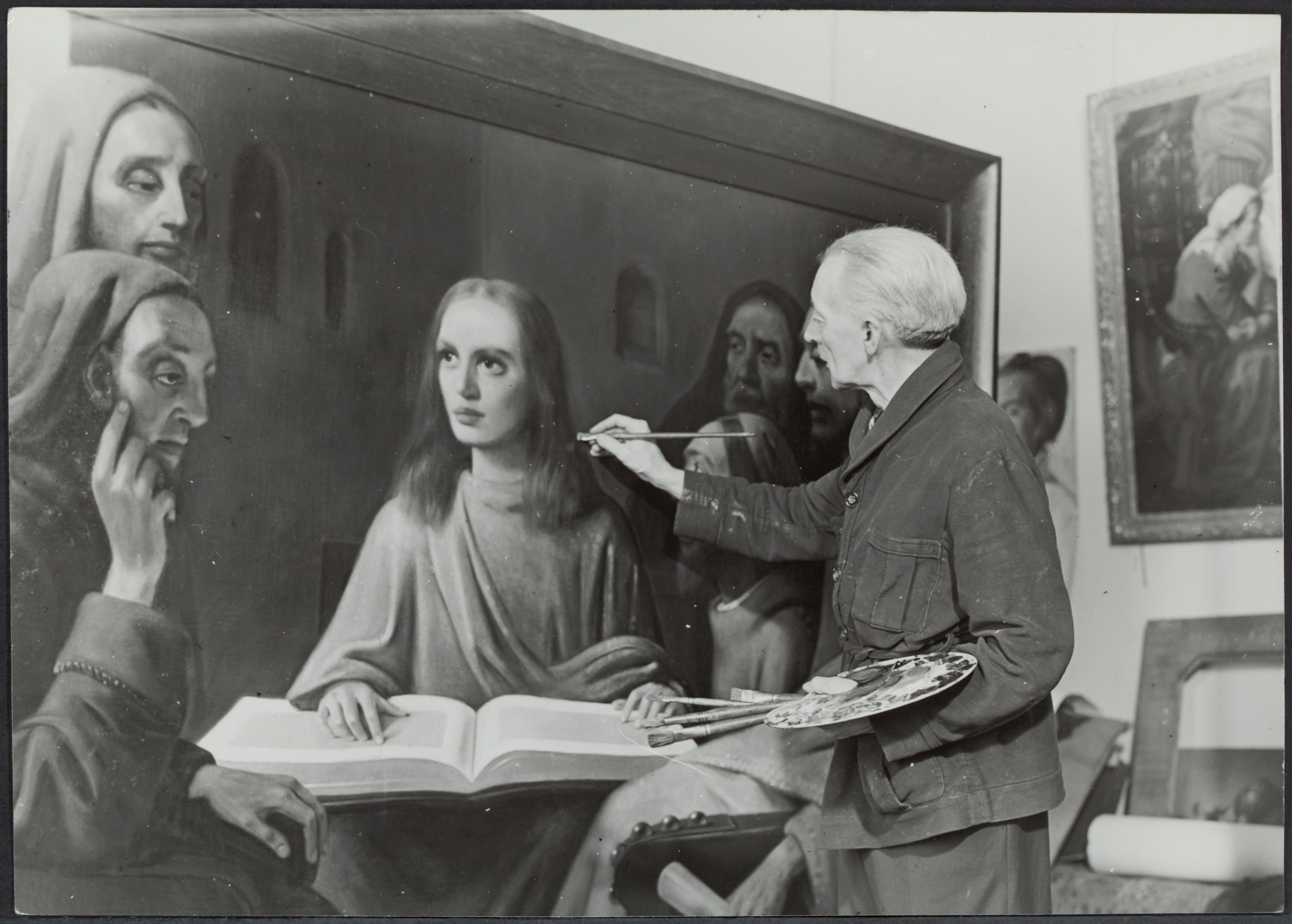 Han van Meegeren "painting" a fake Vermeer, Oct. 1945